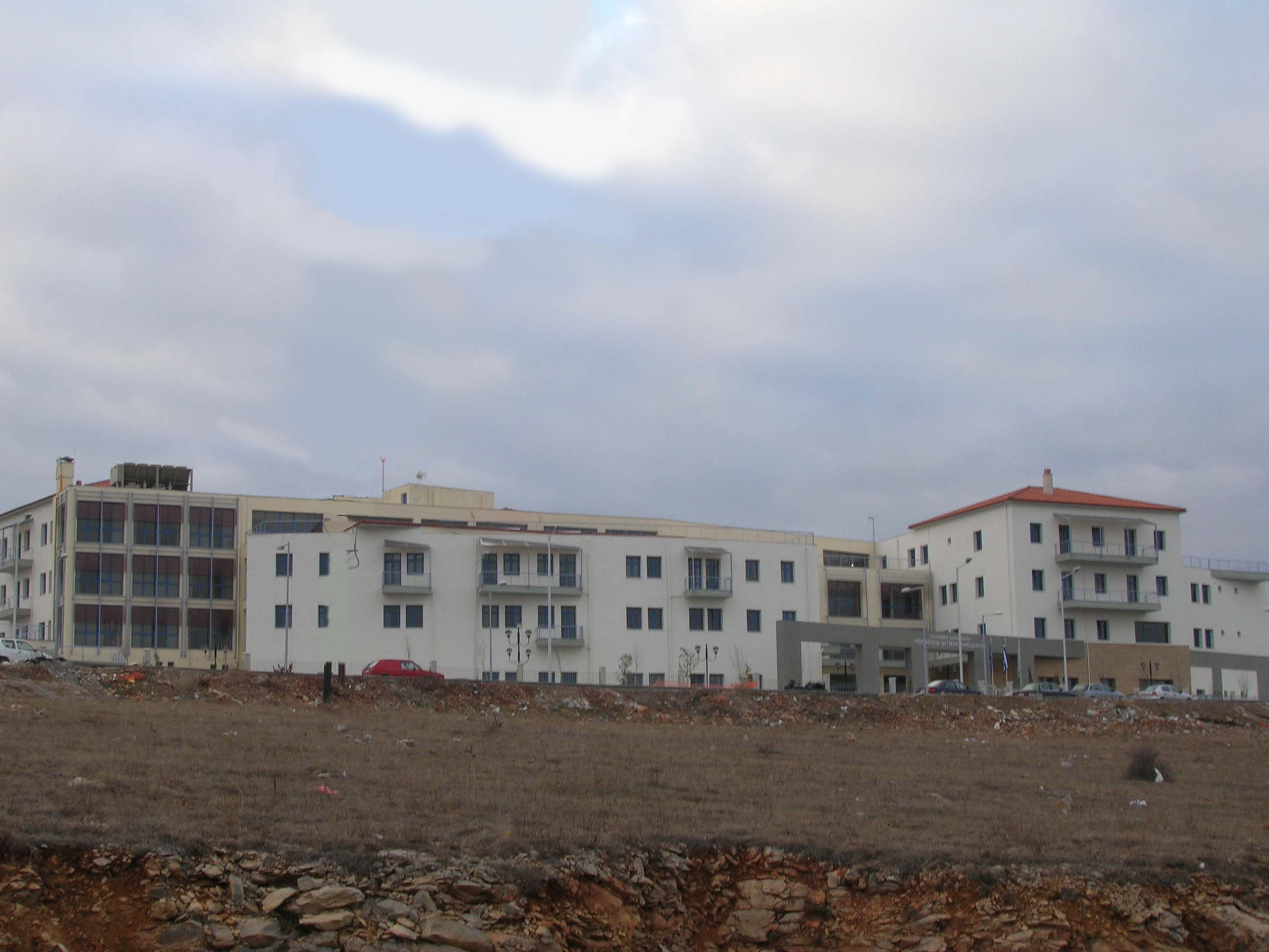 User:Makedonas is the creator of this work.